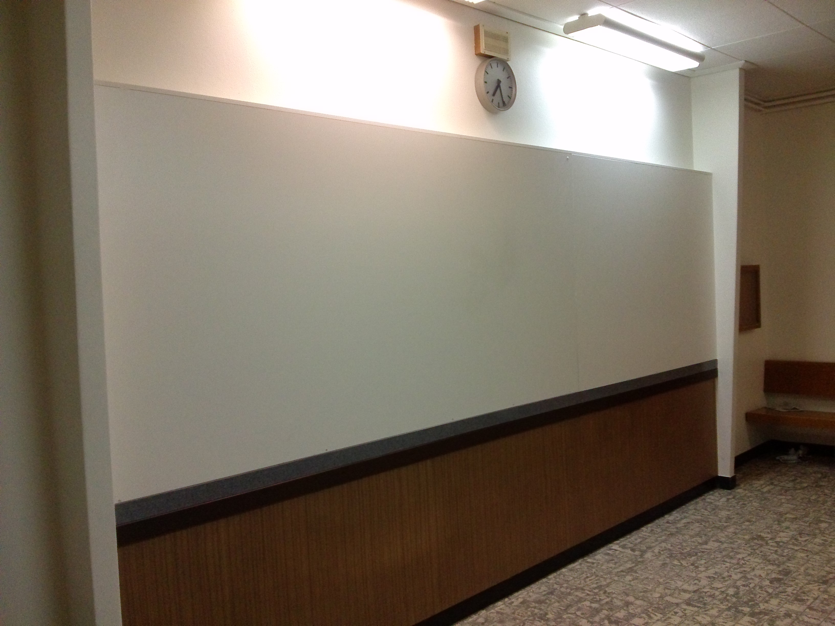 View of the former tickets offices in the waiting room of the railway station, closed since January 1st, 2010.